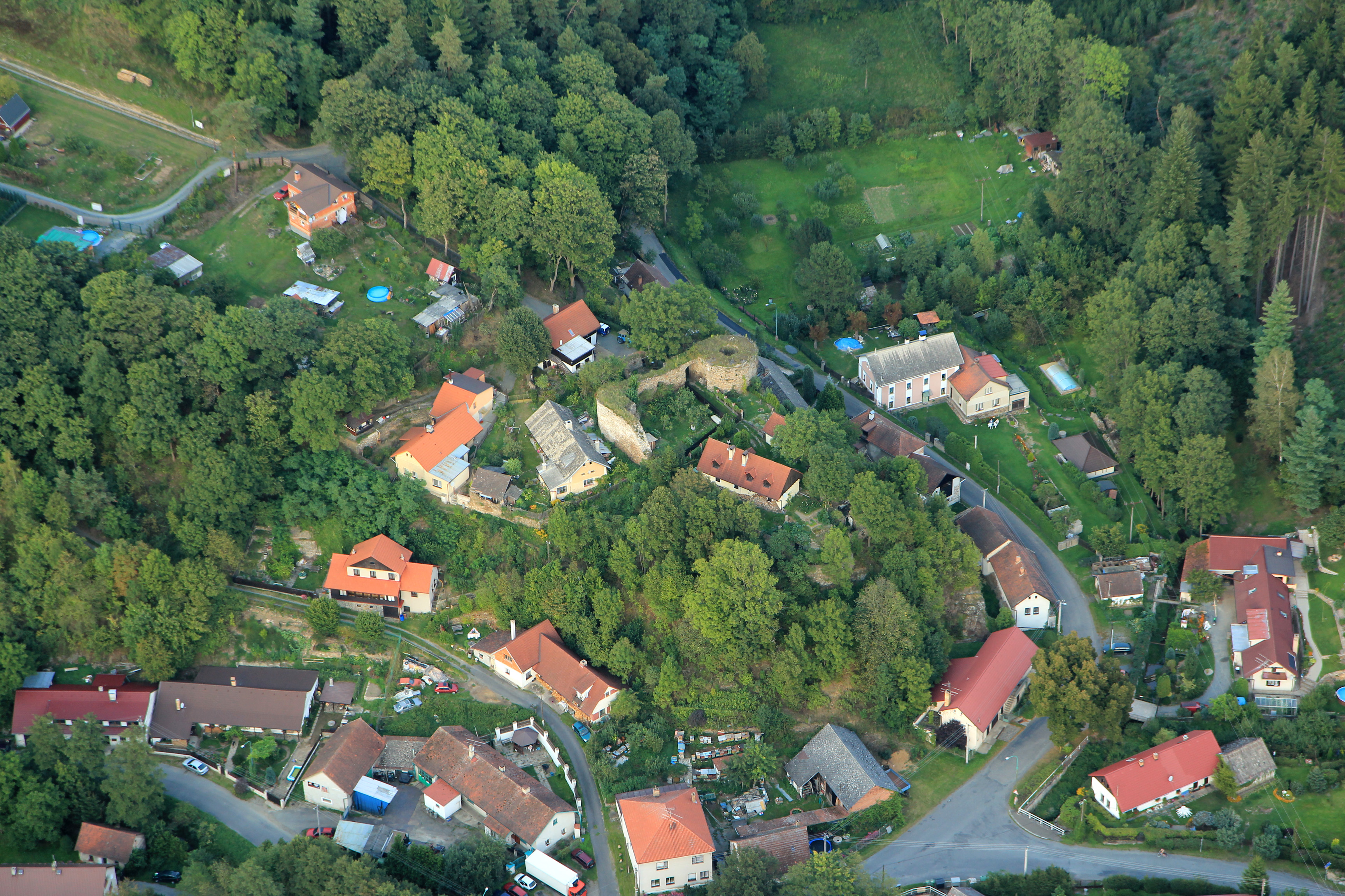 Ruins of Talmberk castle in Talmberk, part of Samopše village, Czech Republic